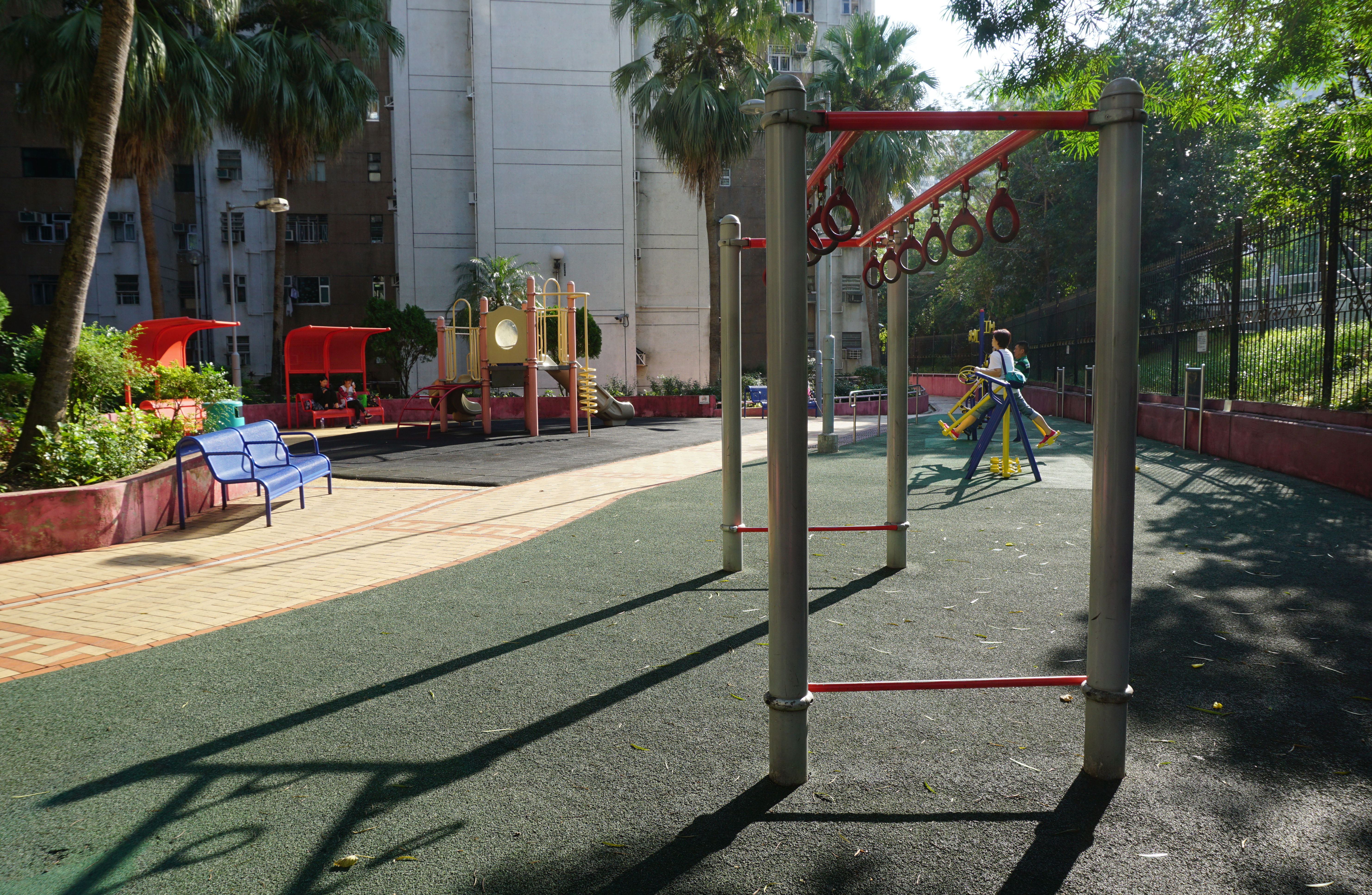 Yuk Po Court in Sheung Shui, Hong Kong.